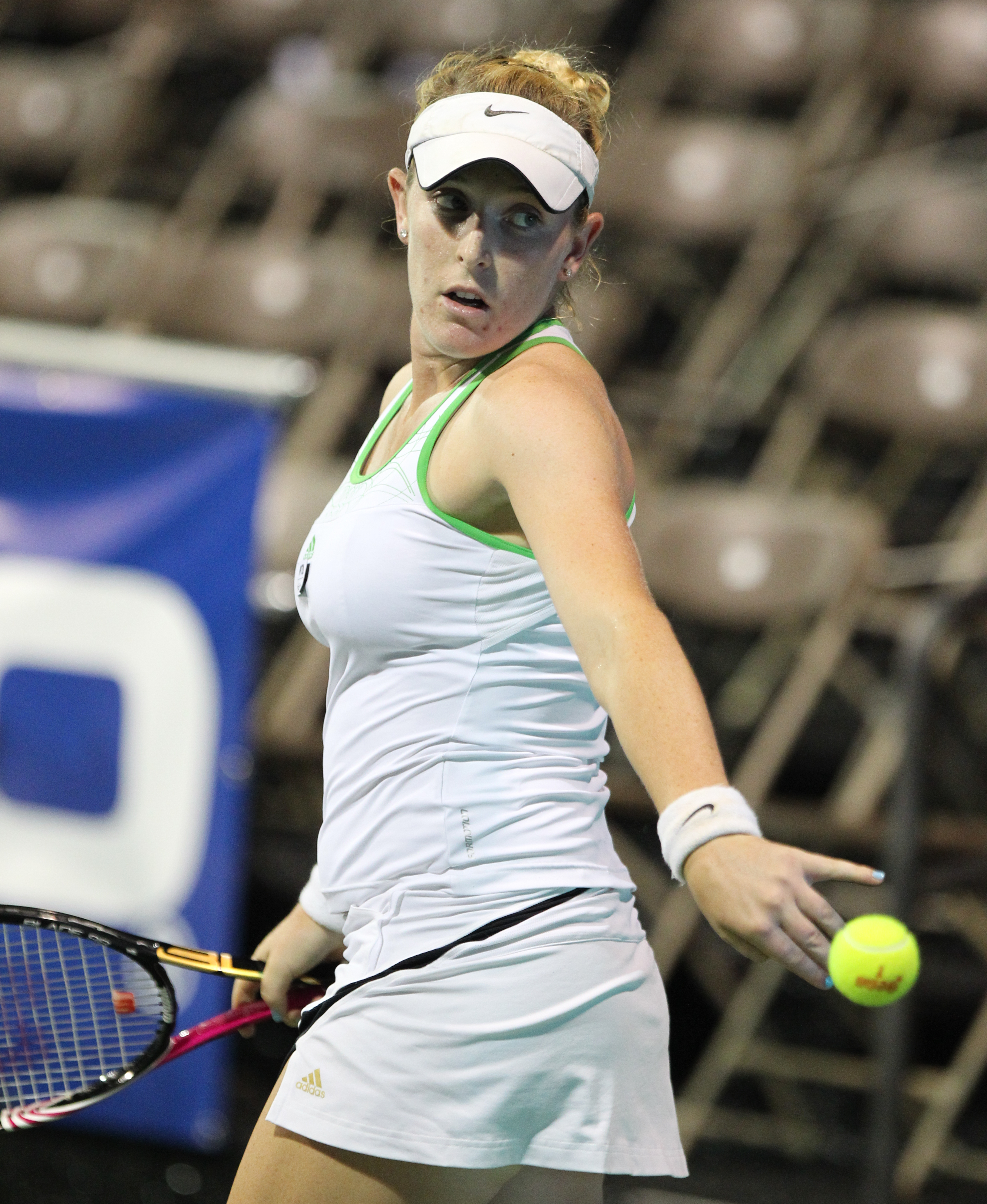 Citi Open Tennis July 28, 2011